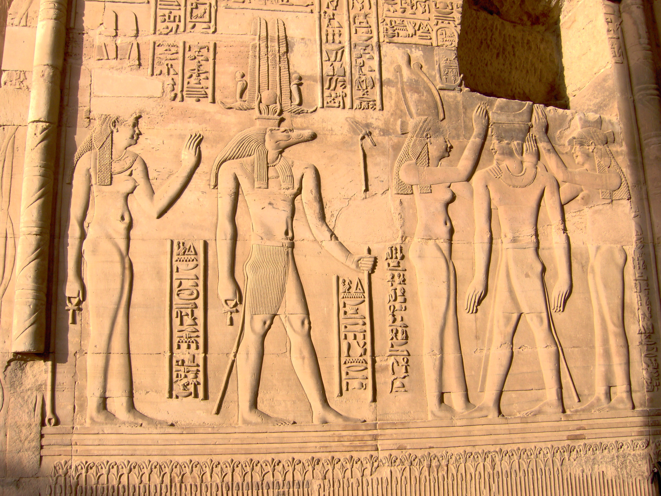 Relief at the temple of Kom Ombo, Egipt. March 2008.